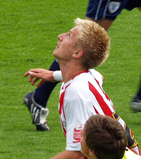 Byron Webster